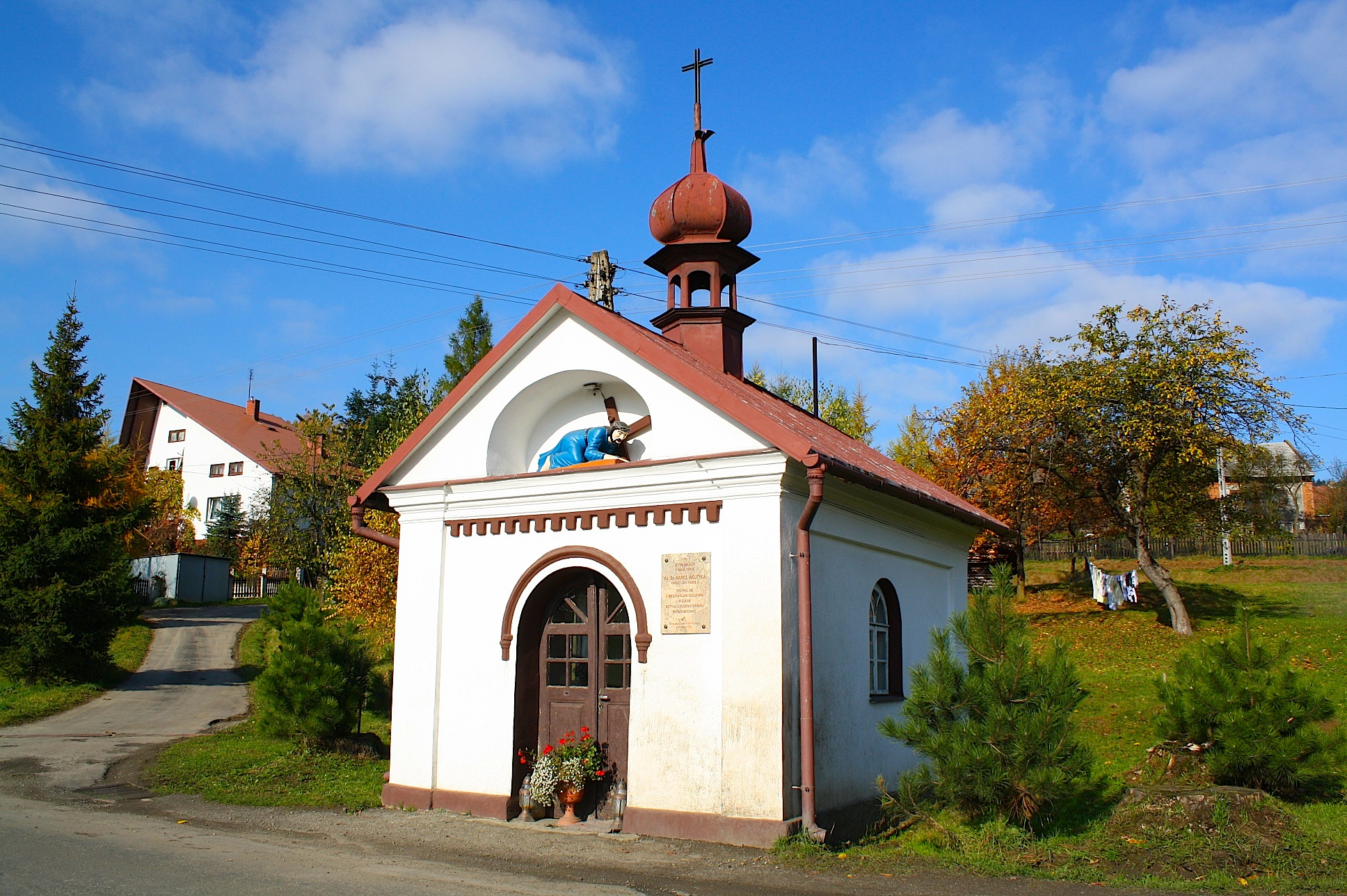 Chapel in Śleszowice, 1749